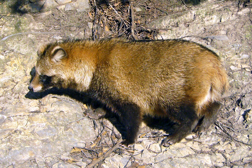 Raccoon Dog at Fukuyama, Hiroshima prefecture, Japan